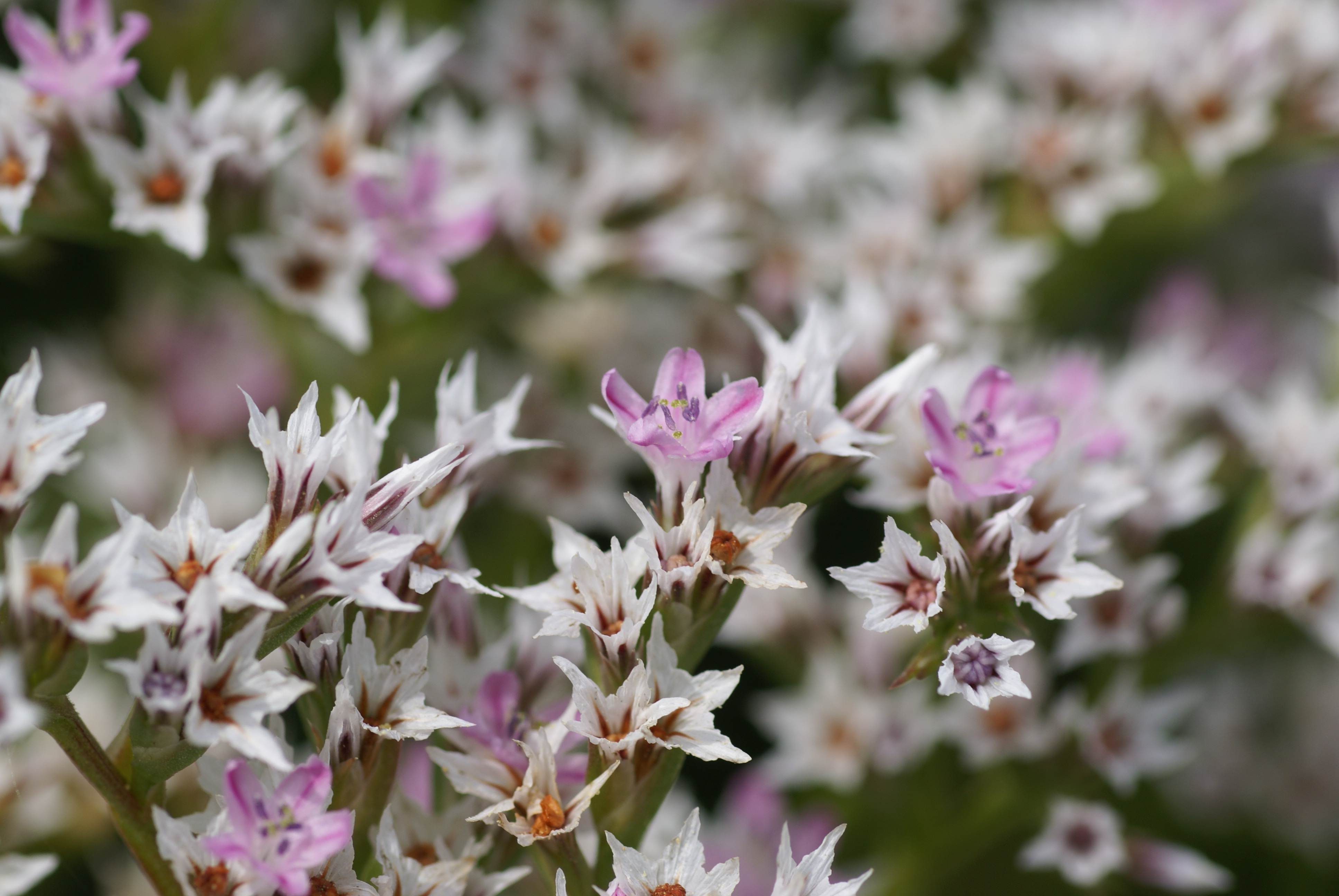 Plant species Goniolimon tataricum in Botaniska trädgården, Uppsala